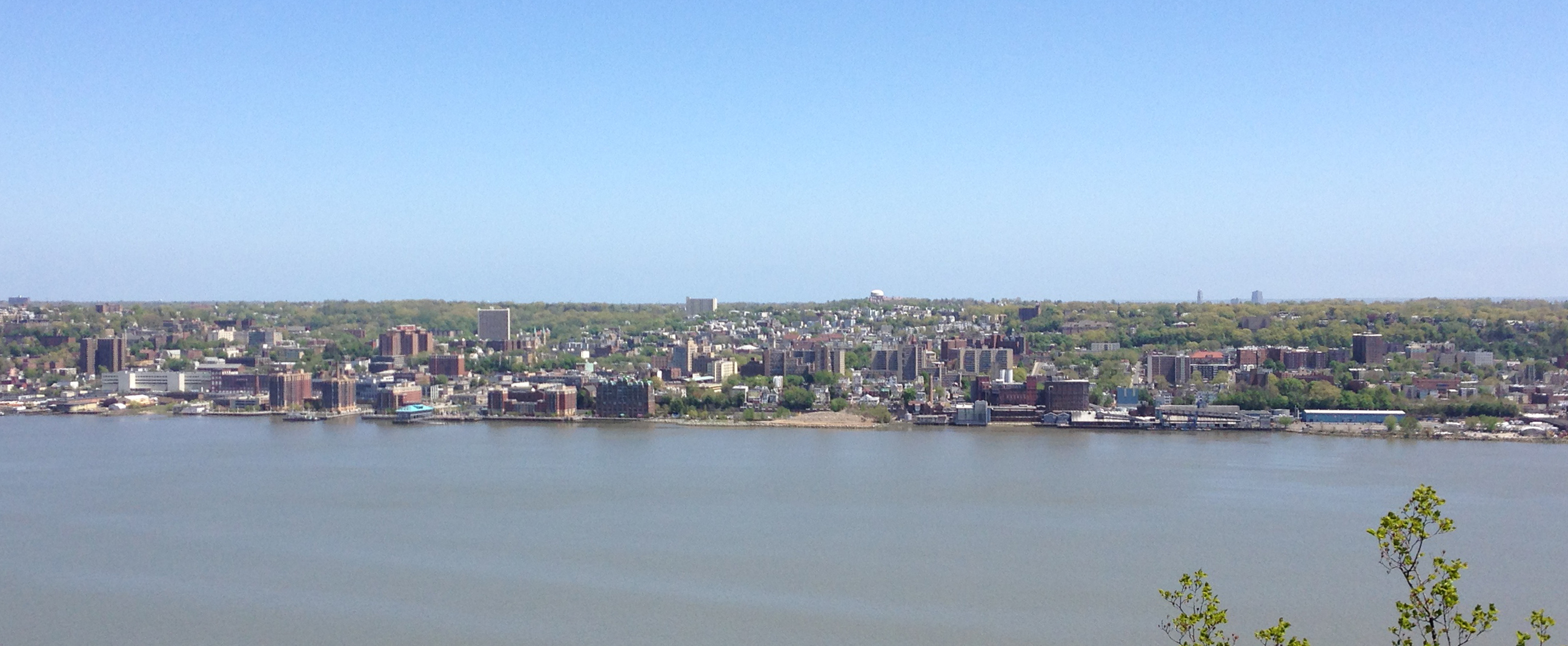 View of Yonkers from Alpine Overlook on the New Jersey Palisades